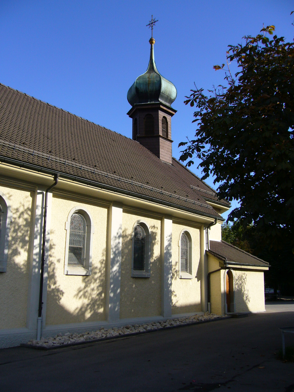 Catholic chapell in Freienwil, canton of Aargau, Switzerland. Picture taken by Peter Berger, October 7, 2006.